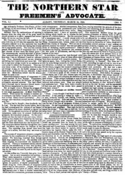 A front page of The Northern Star and Freedmen's Advocate, a 19th-century abolitionist newspaper in Albany, NY, USA, published by former slave Stephen Myers.